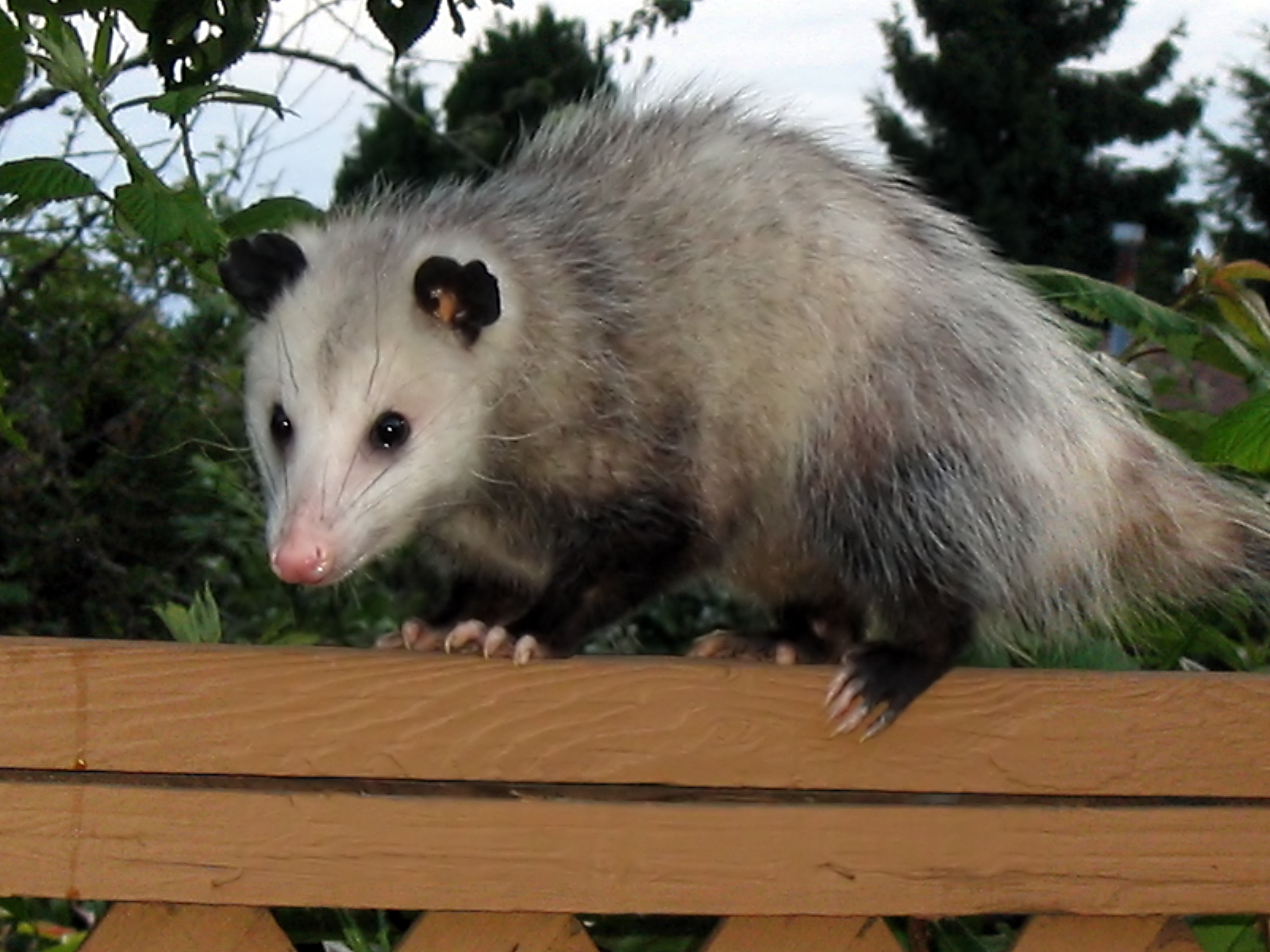 Virginia opossum (Didelphis virginiana) photographed in lower mainland area of western Canada.